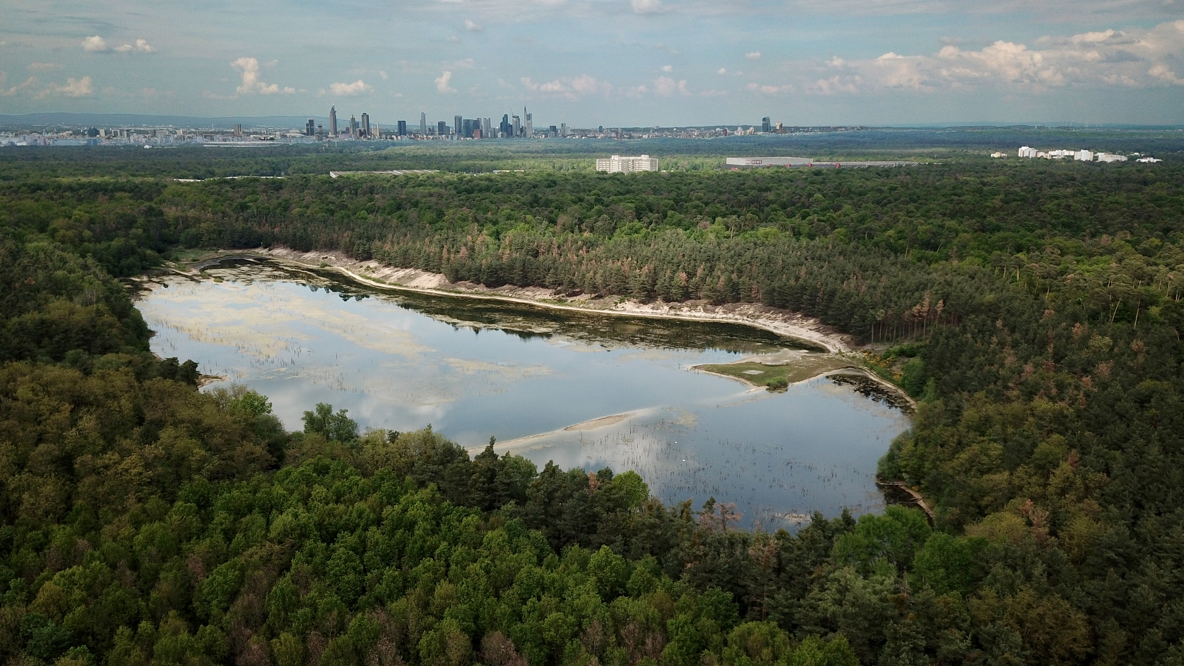 (NSG:HE-1438005)_Lake "Gehspitzweiher" close to Neu-Isenburg